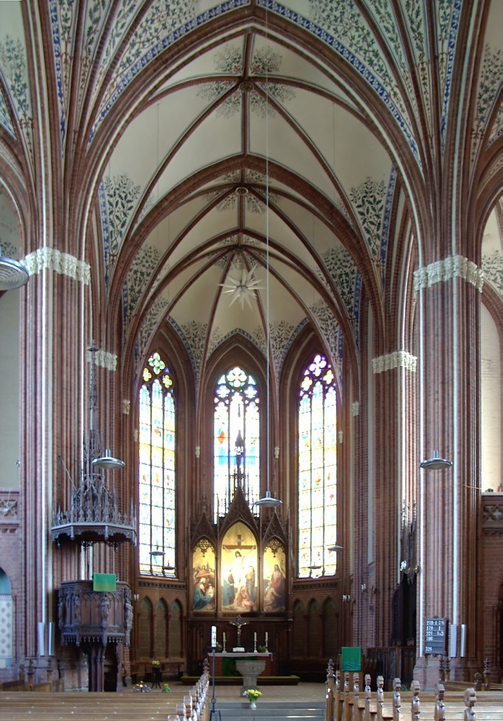 Paulskirche from die inside in Schwerin, Germany